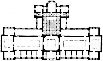 Städelsches Kunstinstitut, Frankfurt, plan.